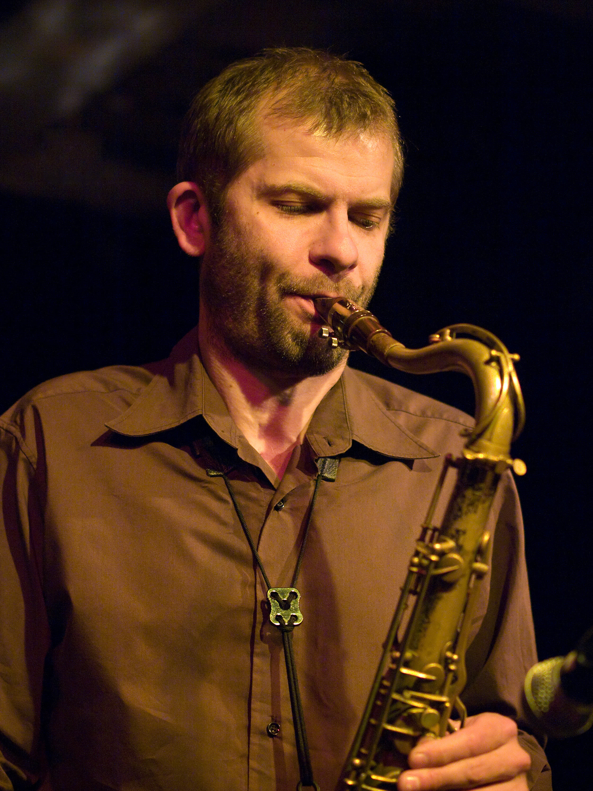 Domenic Landolf, Jazz saxophonist; Picture taken in Jazz Club Unterfahrt, Munich/Bavaria